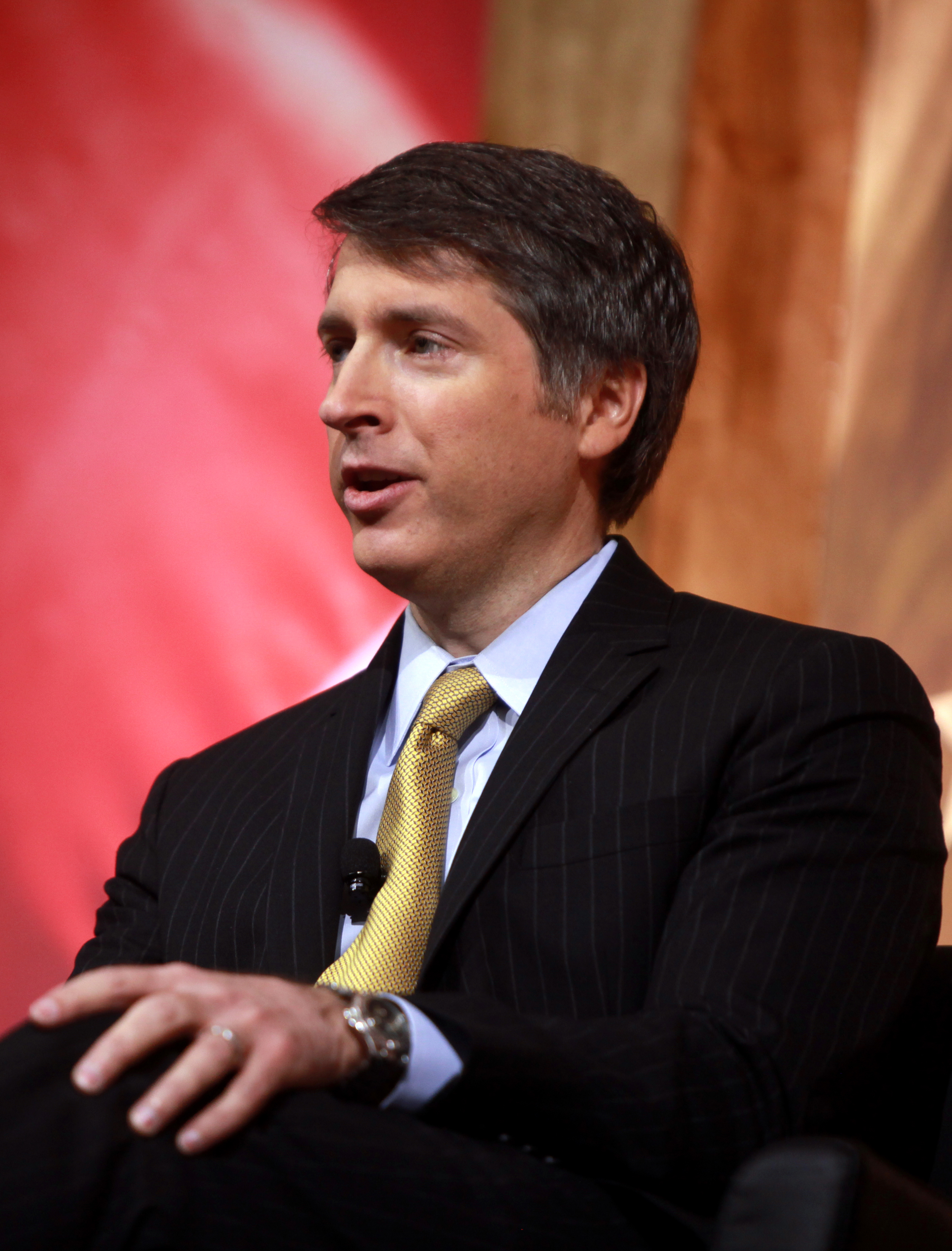 Rich Lowry at the 2014 Conservative Political Action Conference (CPAC) in National Harbor, Maryland, March 8, 2014